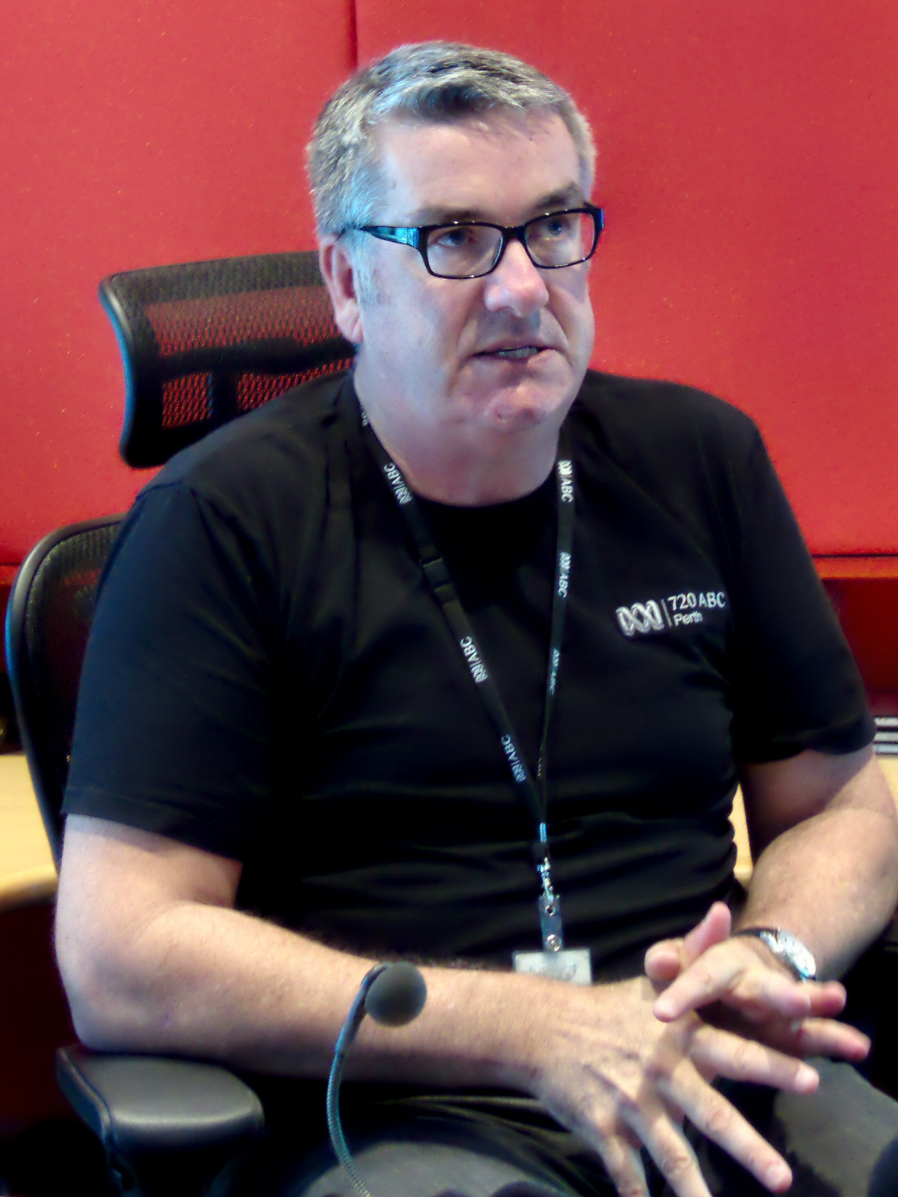 ABC Building Perth (photo taken at Open House Perth 2014 tour): Geoff Hutchison, presenter of the Morning programme on 720 ABC Perth radio